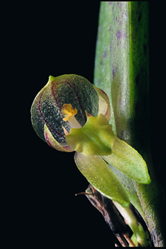 Restrepiopsis ujarensis